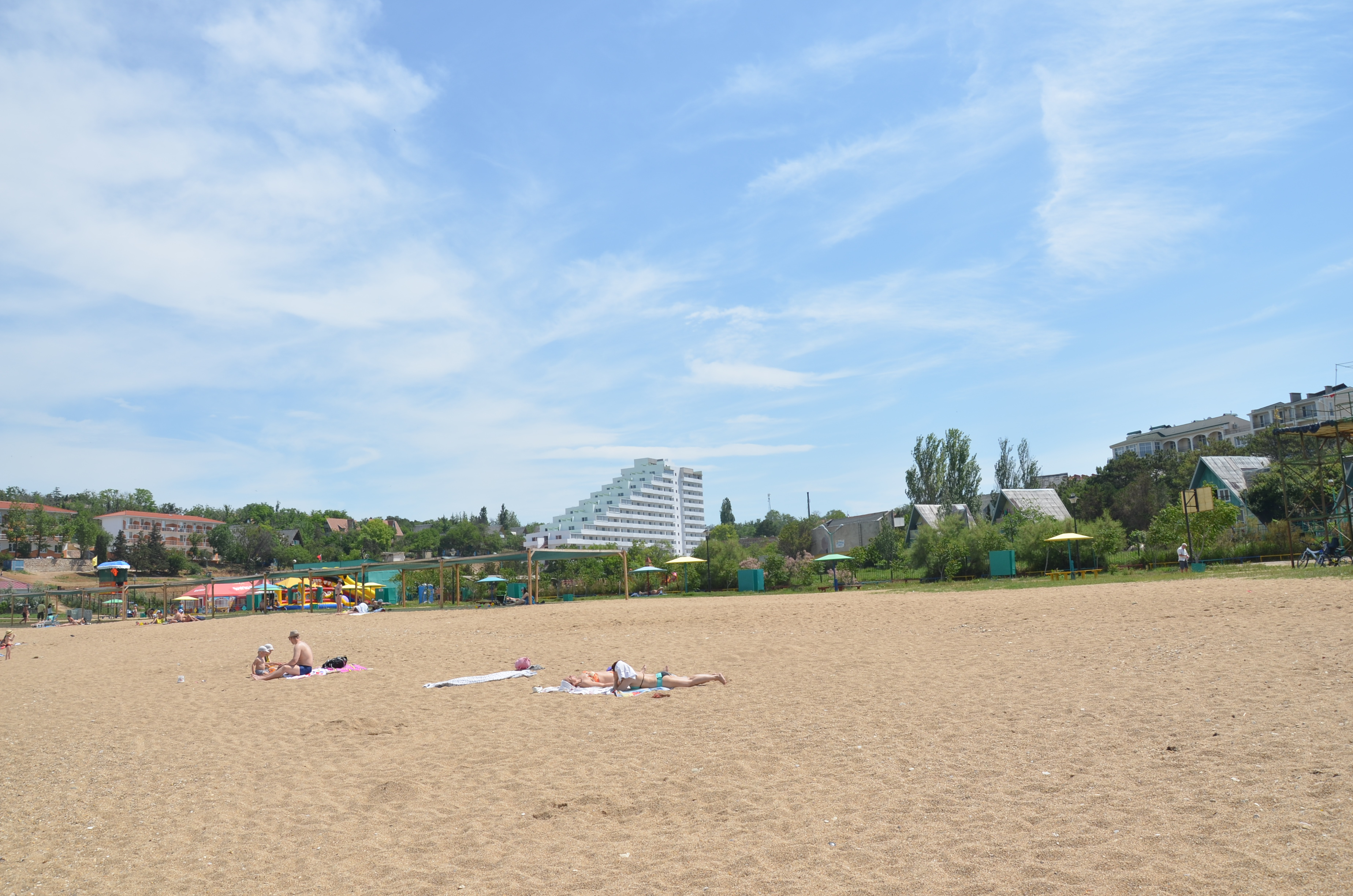 Beach of Mokrousov camp (Sevastopol)